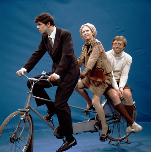 Joost Prinssen, Wieteke van Dort and Aart Staartjes recording Je bent een liegbeest for De Stratemakeropzeeshow.